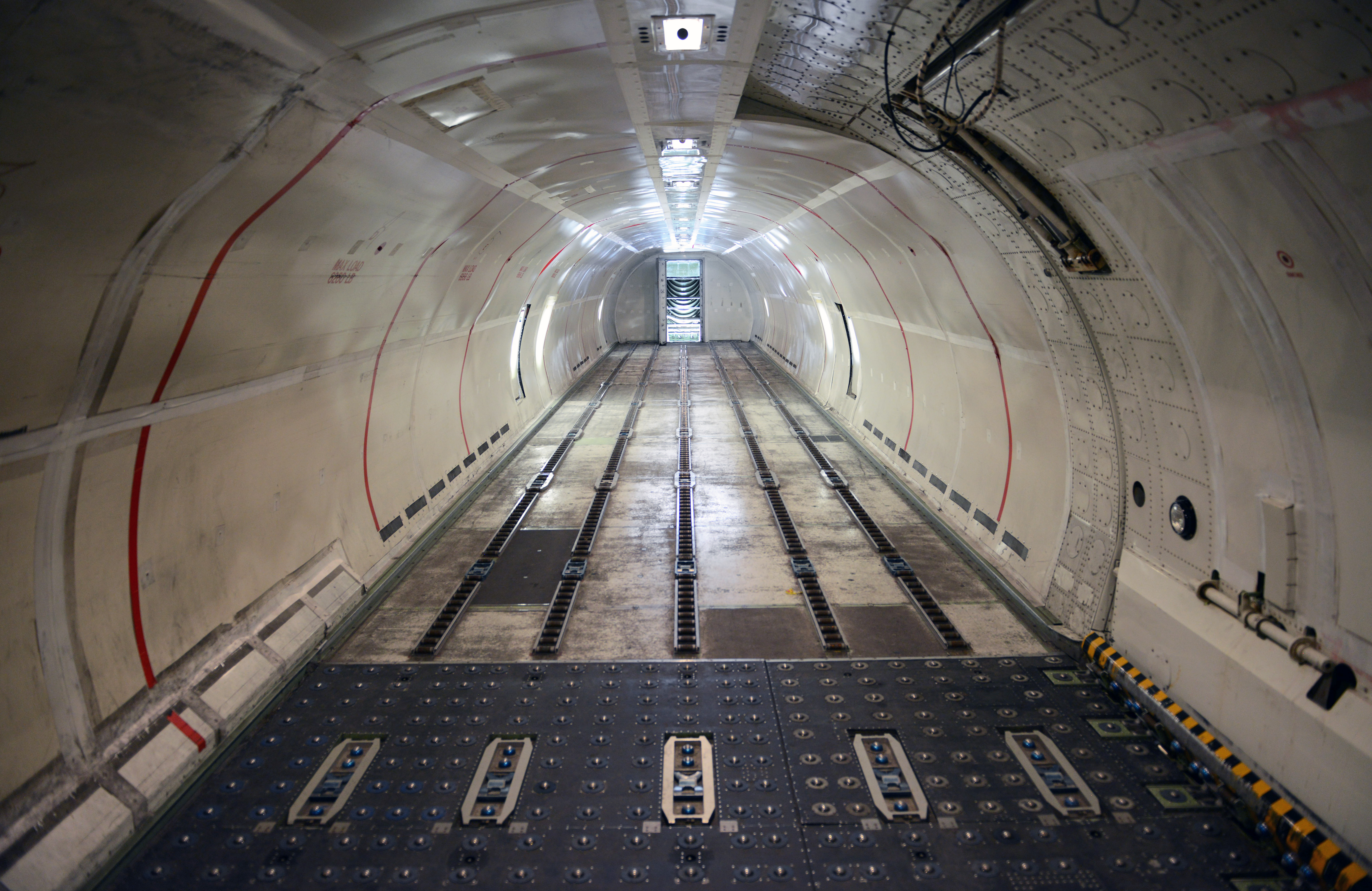 UFV lands Boeing 727 from KF Aerospace